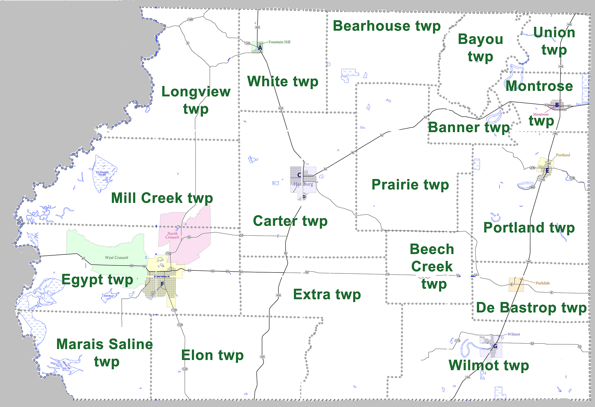 Large map showing townships in Ashley County, Arkansas. Modified from US census map (for 2010 census) for Ashley County, Arkansas